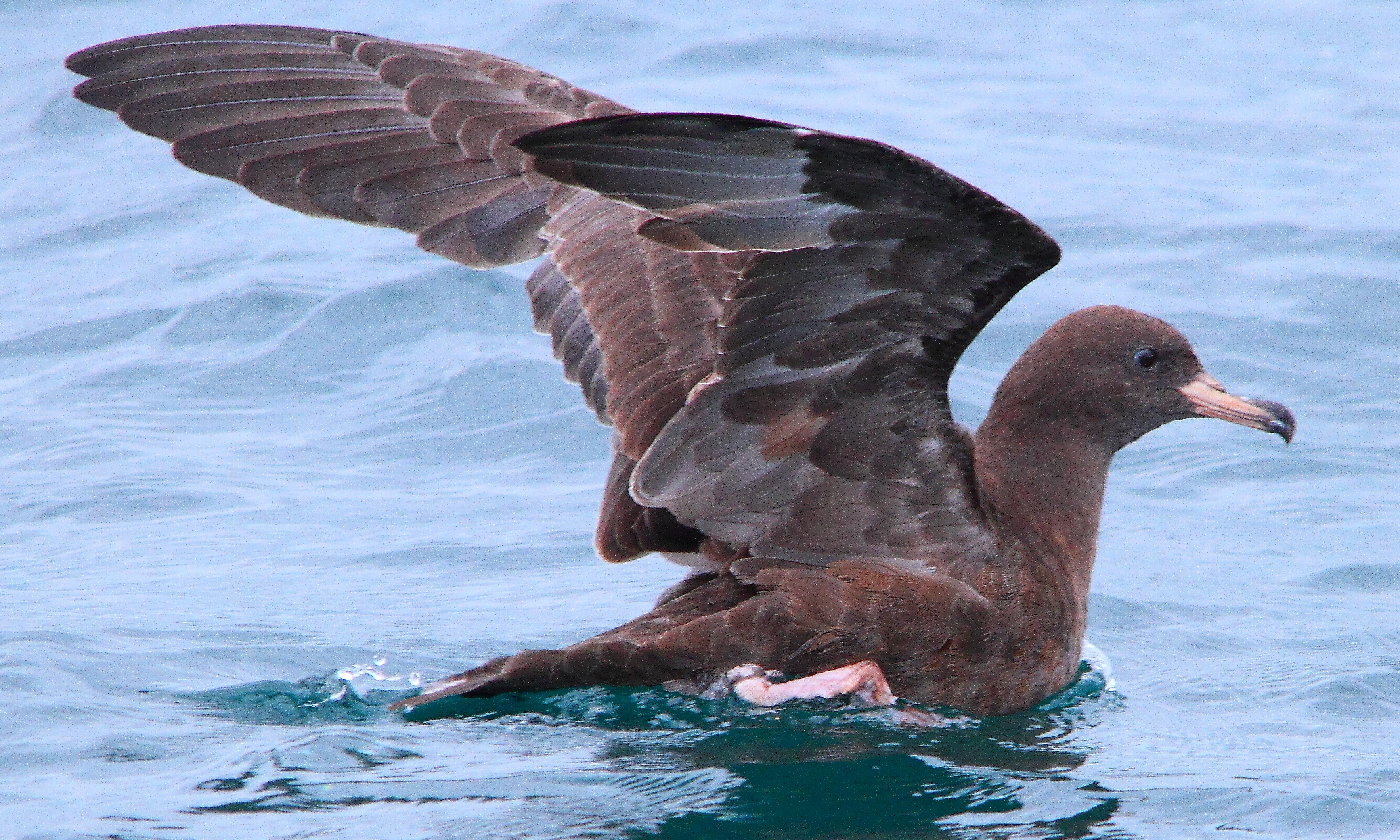 The Flesh-footed Shearwater (Puffinus carneipes) is a medium-sized shearwater. Its plumage is black. It has pale pinkish feet, and a pale bill with a distinct black tip.